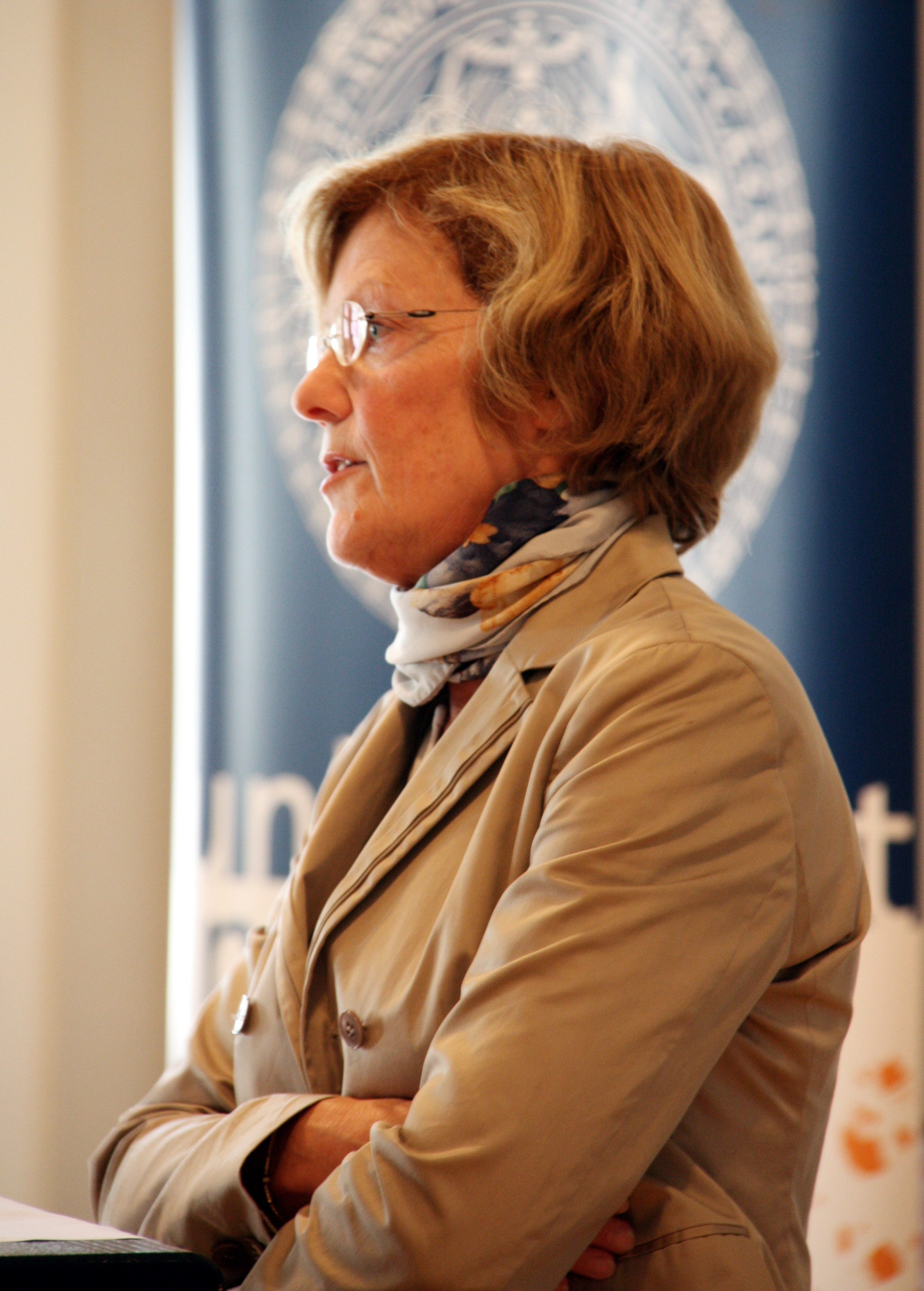 Margret Friedrich